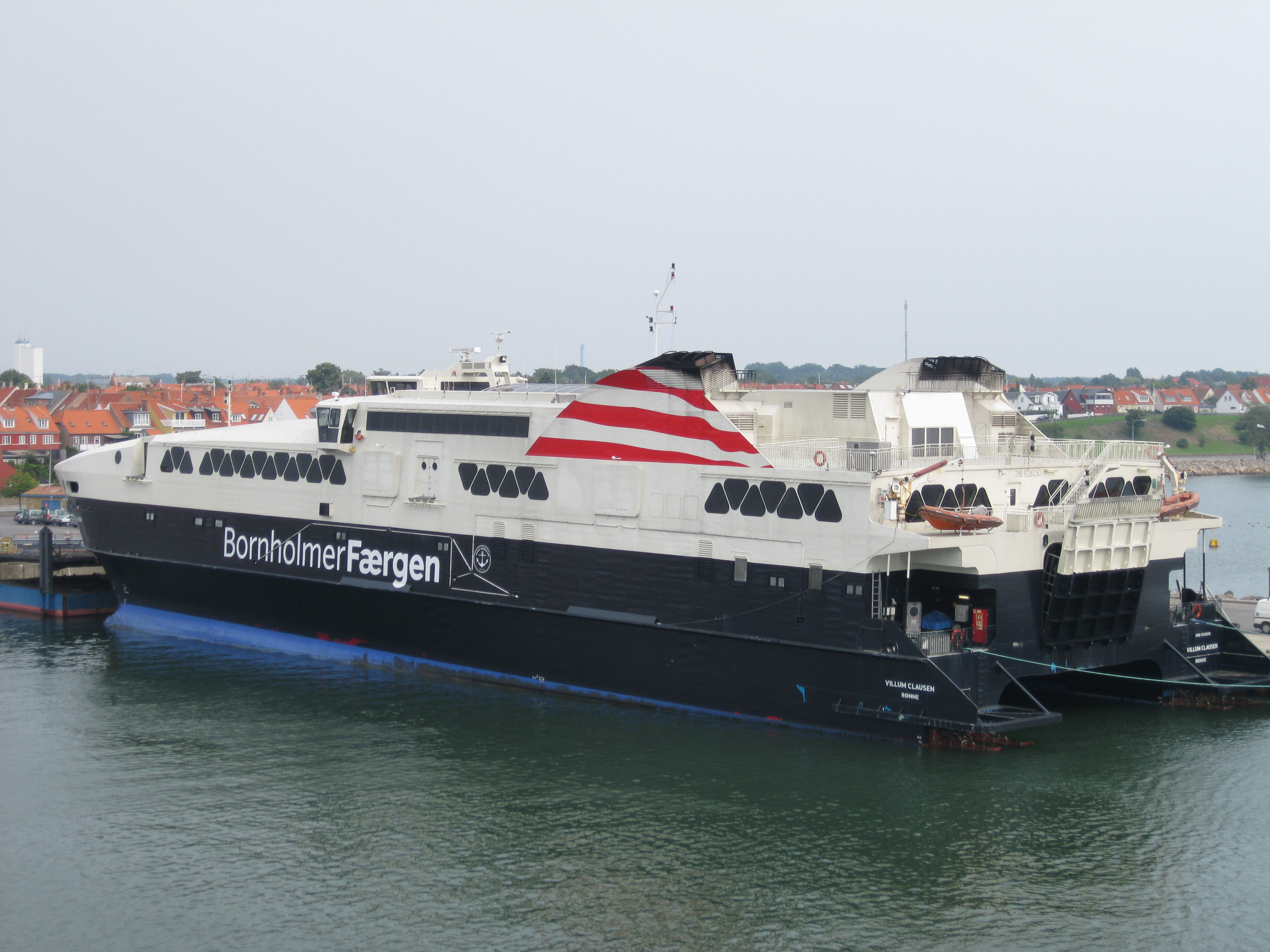 The ship Villum Clausen at Rønne harbour in August 2011.